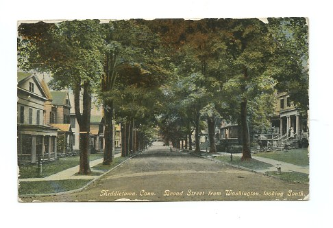 Postcard: Broad Street at Washington, Middletown, Connecticut, 1910 postmark Description: "Broad Street At Washington, Middletown Connecticut 1910 Old Divided Back Postcard [...] Postmarked 1910"